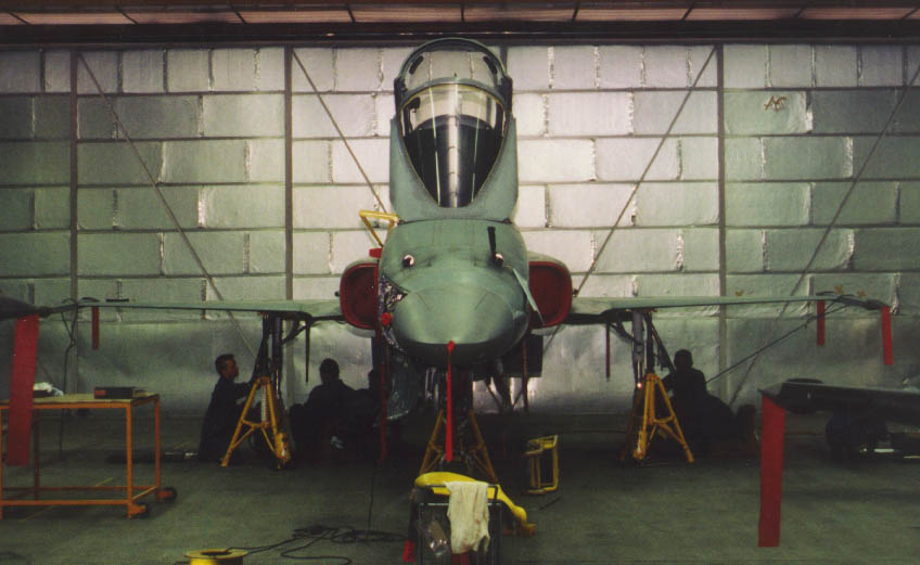 F-5E Swiss Air Force